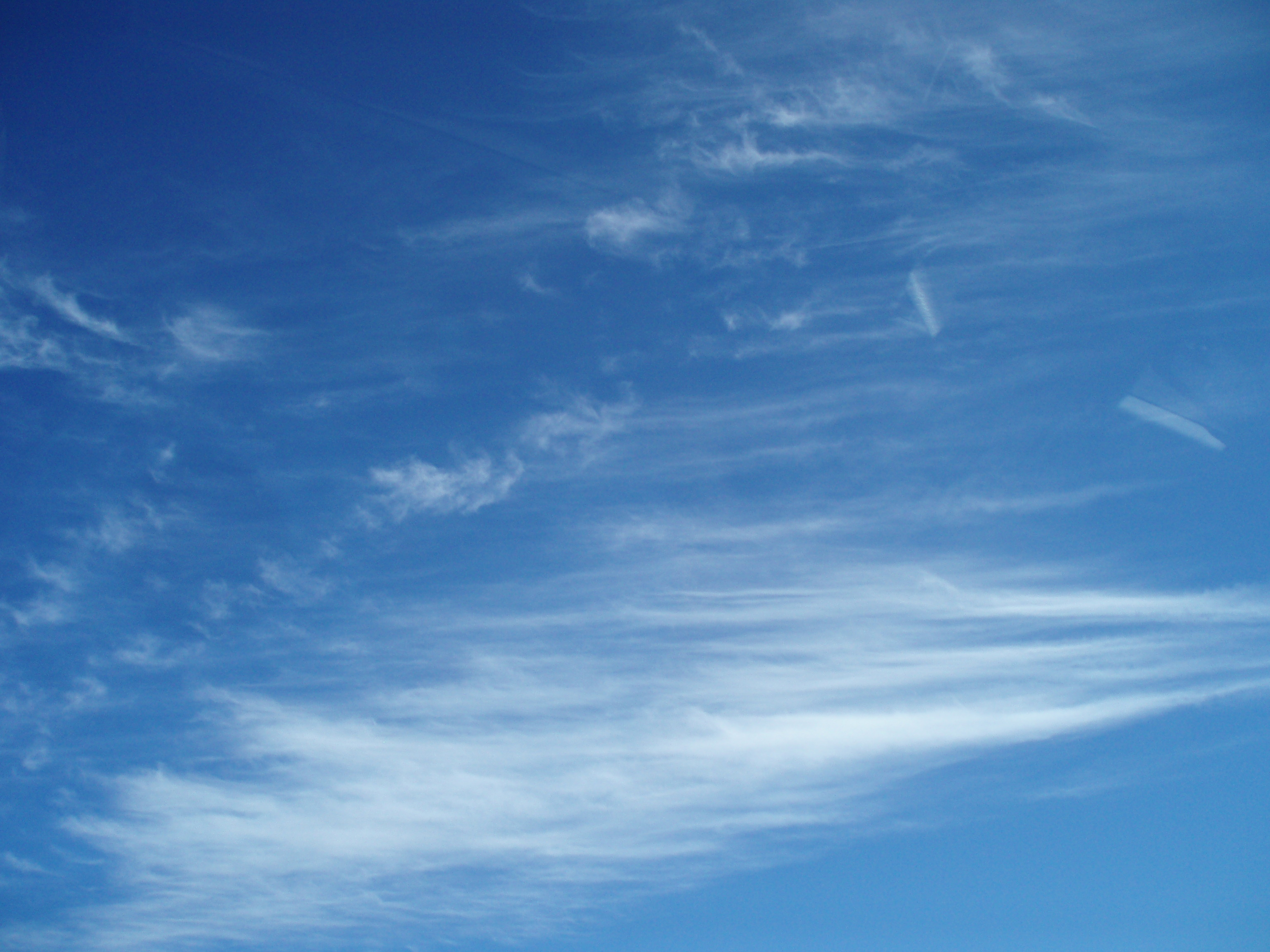 Cirrus cloud (Norway)